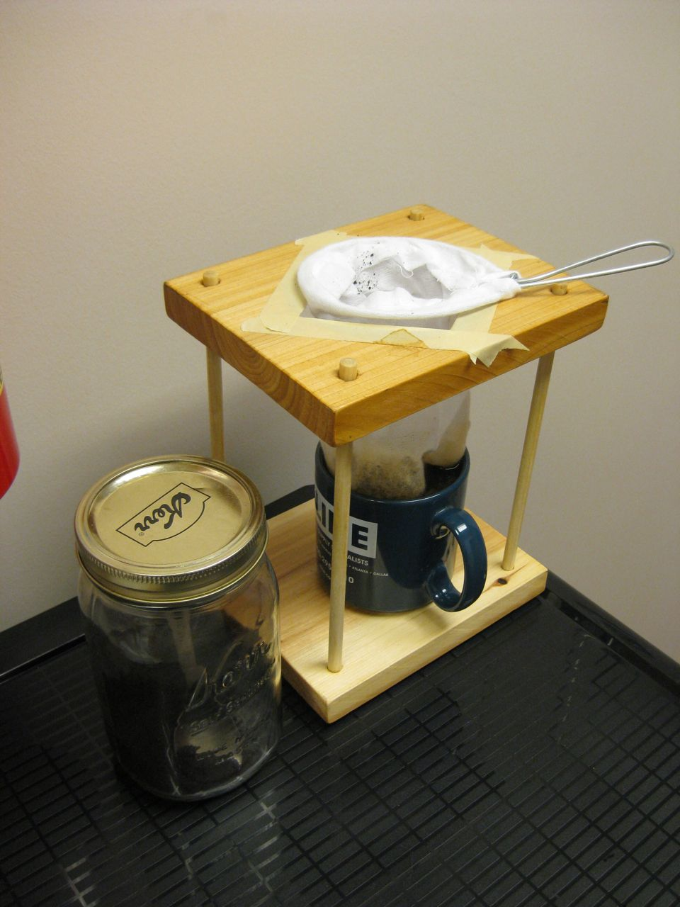 A photo of a Costan Rican chorreador drip coffee maker.